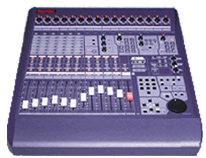 Icon of a mixer created by me Note:basic design is similar to RAMSA WR-DA7, but 10 faders & LCD is omitted.